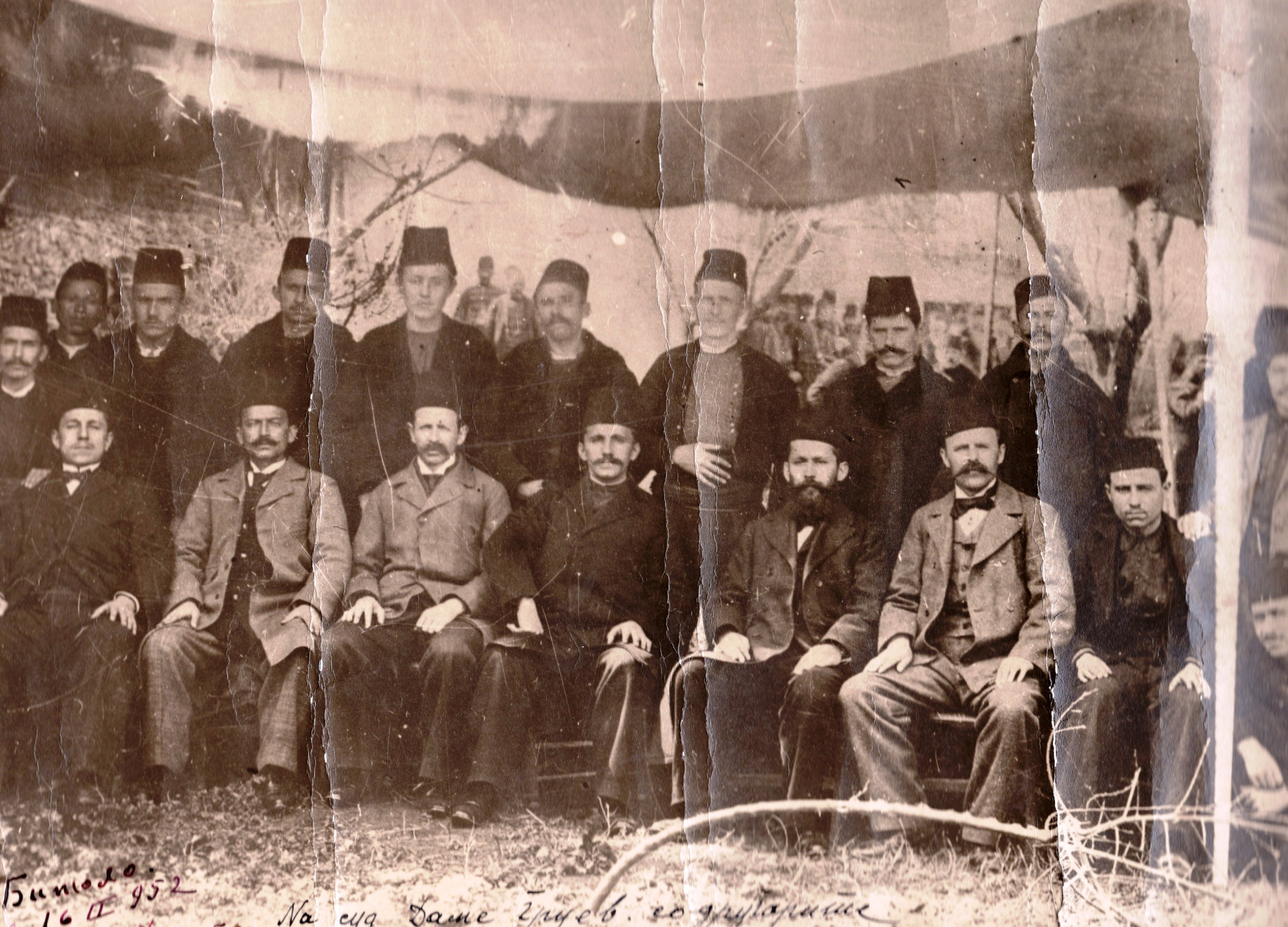 Trial of Dame Gruev with friends This media file is produced by Wikipedian in Residence in Category:Wikipedian in Residence at DARM in 2016.